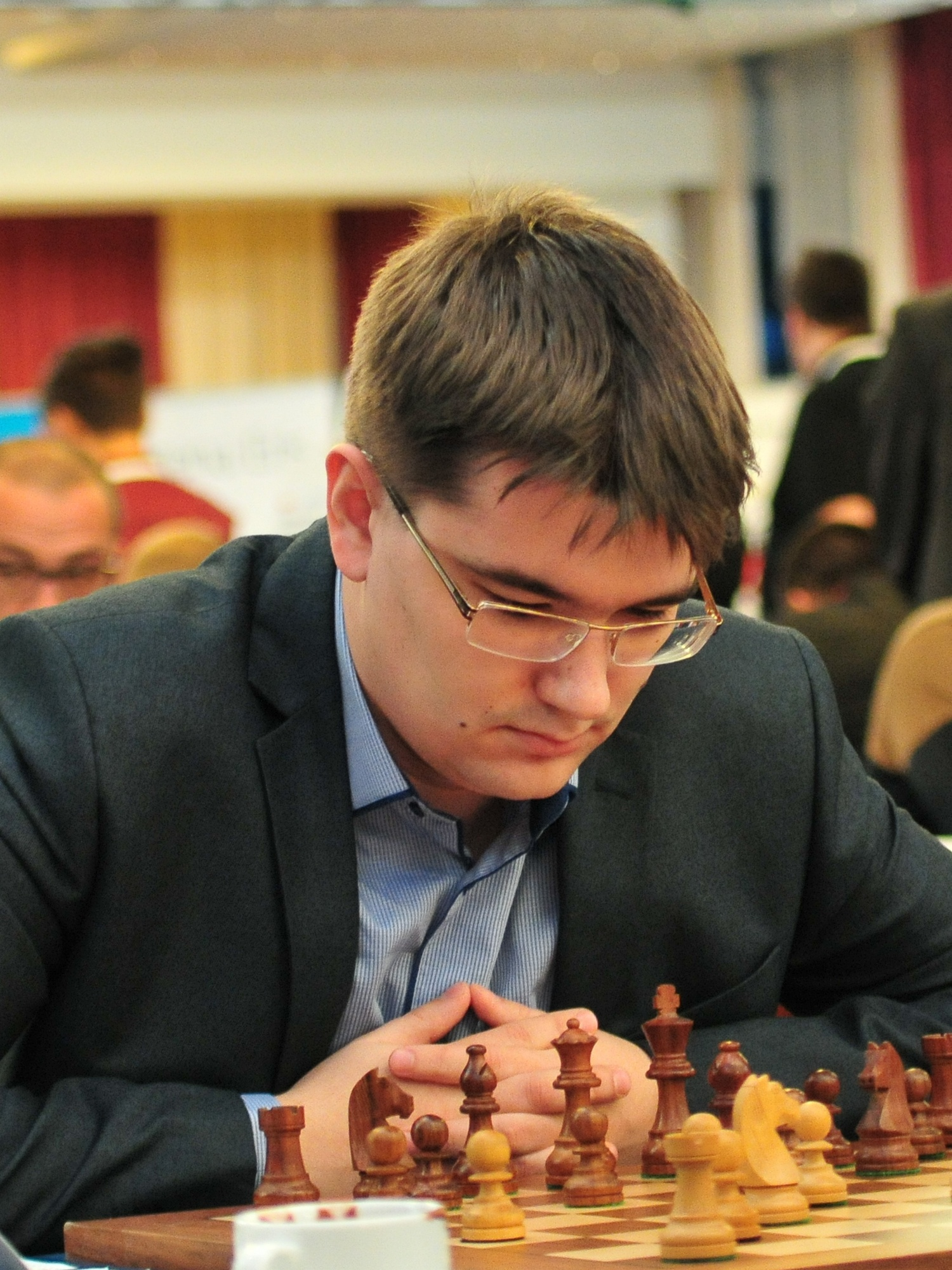 GM Evgeny Tomashevsky, European Chess Team Championship Warsaw 2013